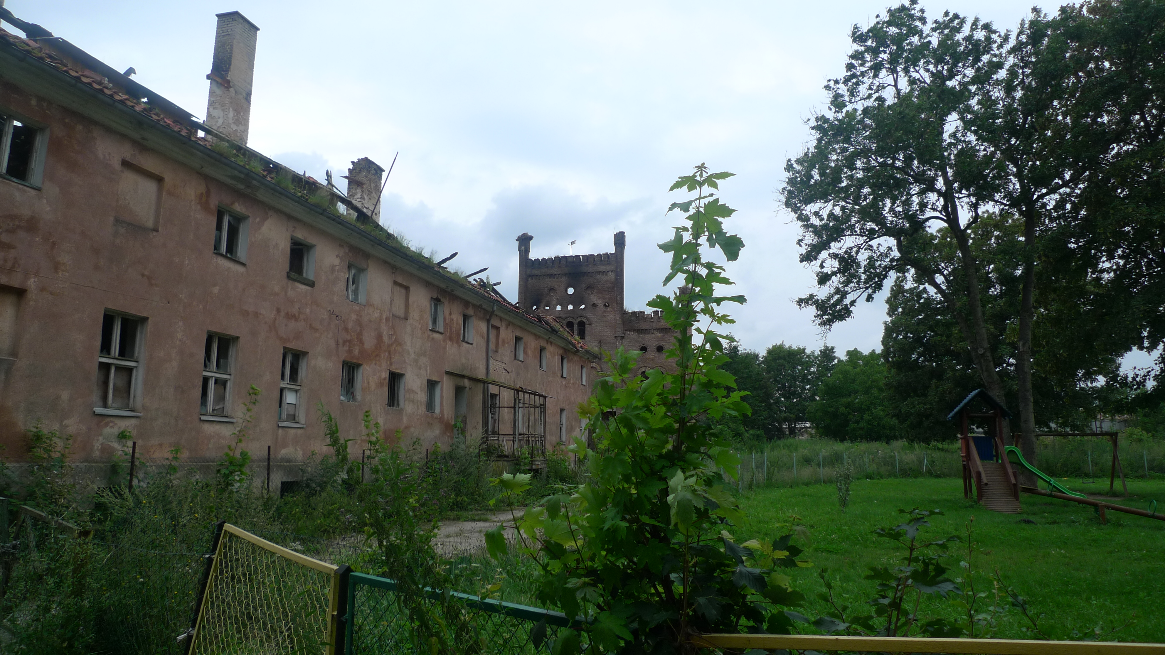 Krzymów